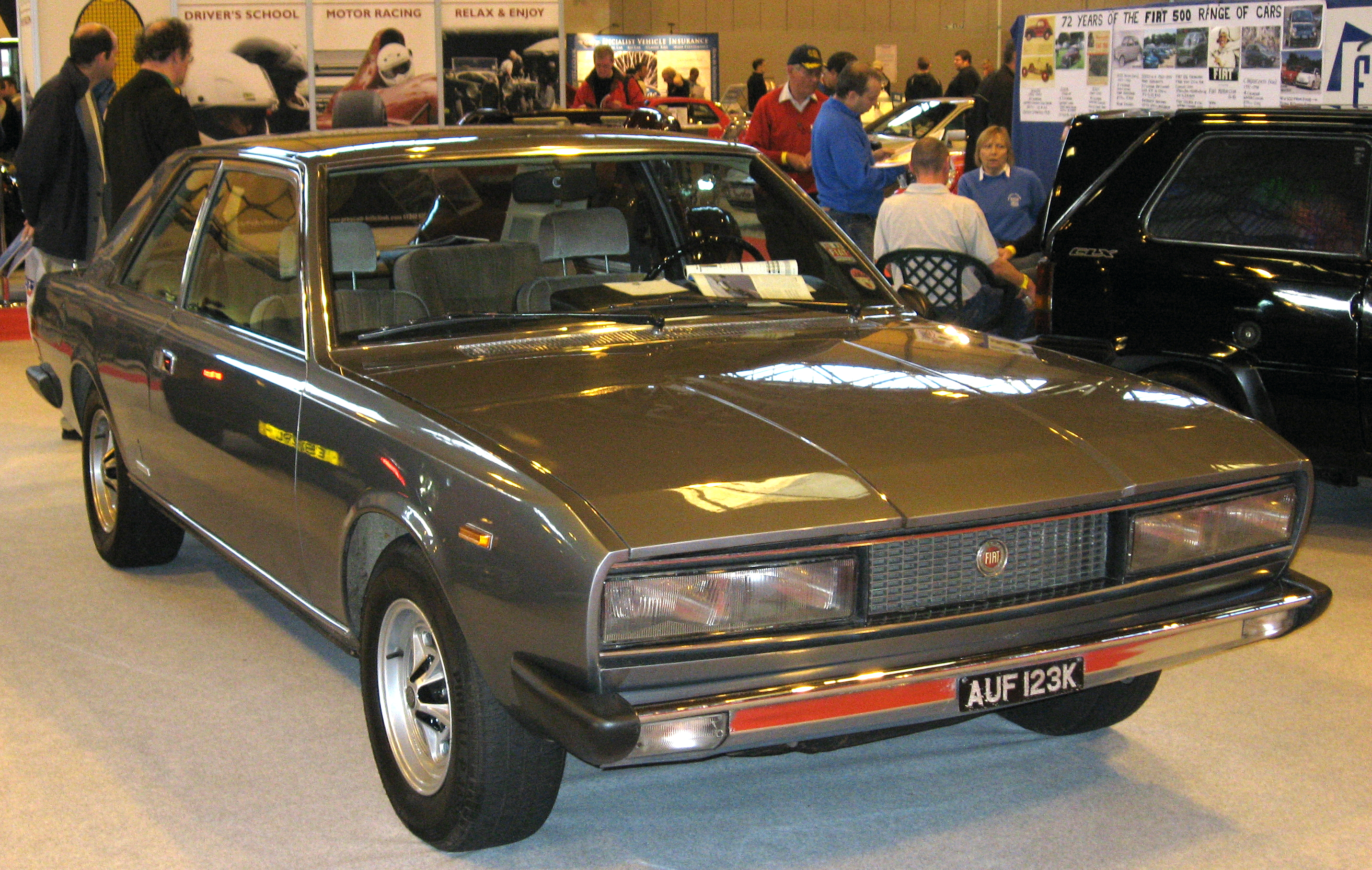 Fiat 130 Coupe at NEC Classic Motor Show 2007